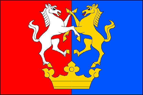 Municipal flag of Koněprusy , District Beroun, Czech Republic